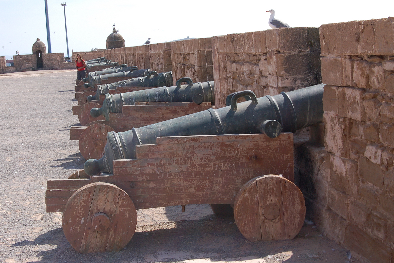 Cannons in the port of Essaouira in Morocco; most were purchased from Spain (Seville and Barcelona according to text on the cannons) and also The Netherlands.